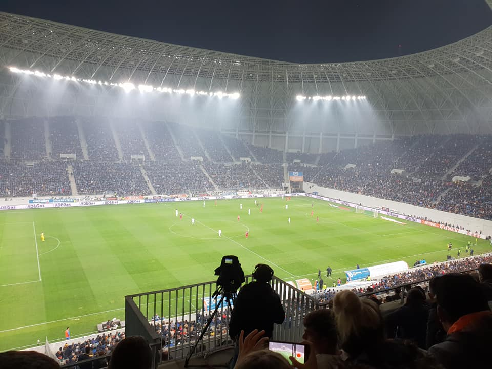 CS Universitatea Craiova versus FC Steaua București in 2018 at the new Ion Oblemenco Stadium (Romanian Liga I)